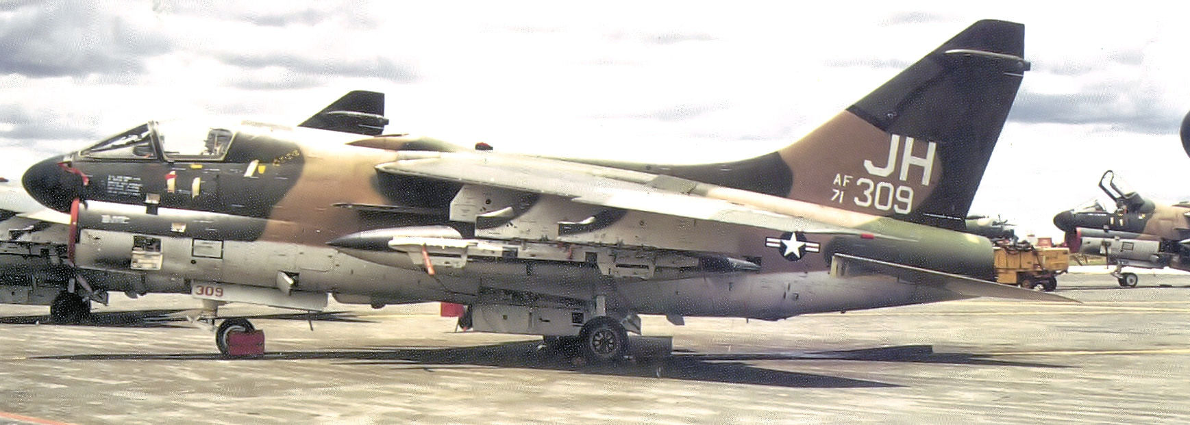 3d Tactical Fighter Squadron Ling-Temco-Vought A-7D-10-CV Corsair II 71-0309 Korat Royal Thai Air Force Base, 1973 1972: Aircraft delivered to 354th Tactical Fighter Wing, 353d TFS (c/n D-220) Deployed to Korat RTAFB, October 1972; Transferred to 388th TFW/3d TFS March 1973 Transferred to 23d TFW, December 1975 Transferred to 124th Tactical Fighter Squadron, Iowa Air National Guard, 1985 Transferred to AMARC as AE0206 Sep 15, 1991. Forward fuselage, cockpit and nose seen in scrapyard February 17, 2008.